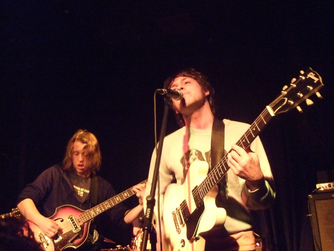 The Spinto Band performing at the Thekla Social, Bristol, UK